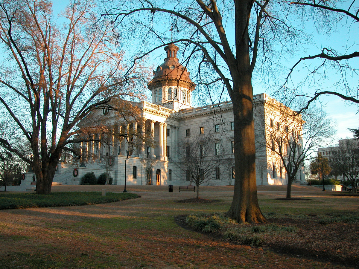 South Carolina statehouse from near the corner of Gervais and Assembly Streetsn ibf